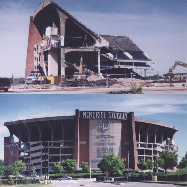 memorial std. being demolished